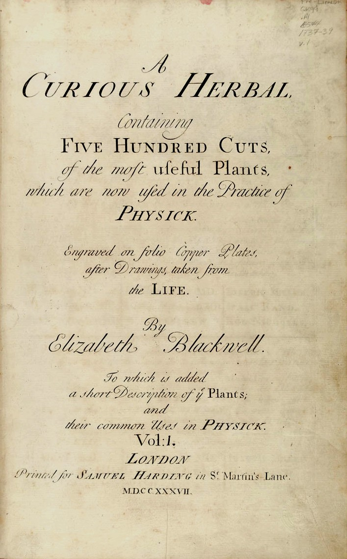 Title Page of "A Curious Herbal"